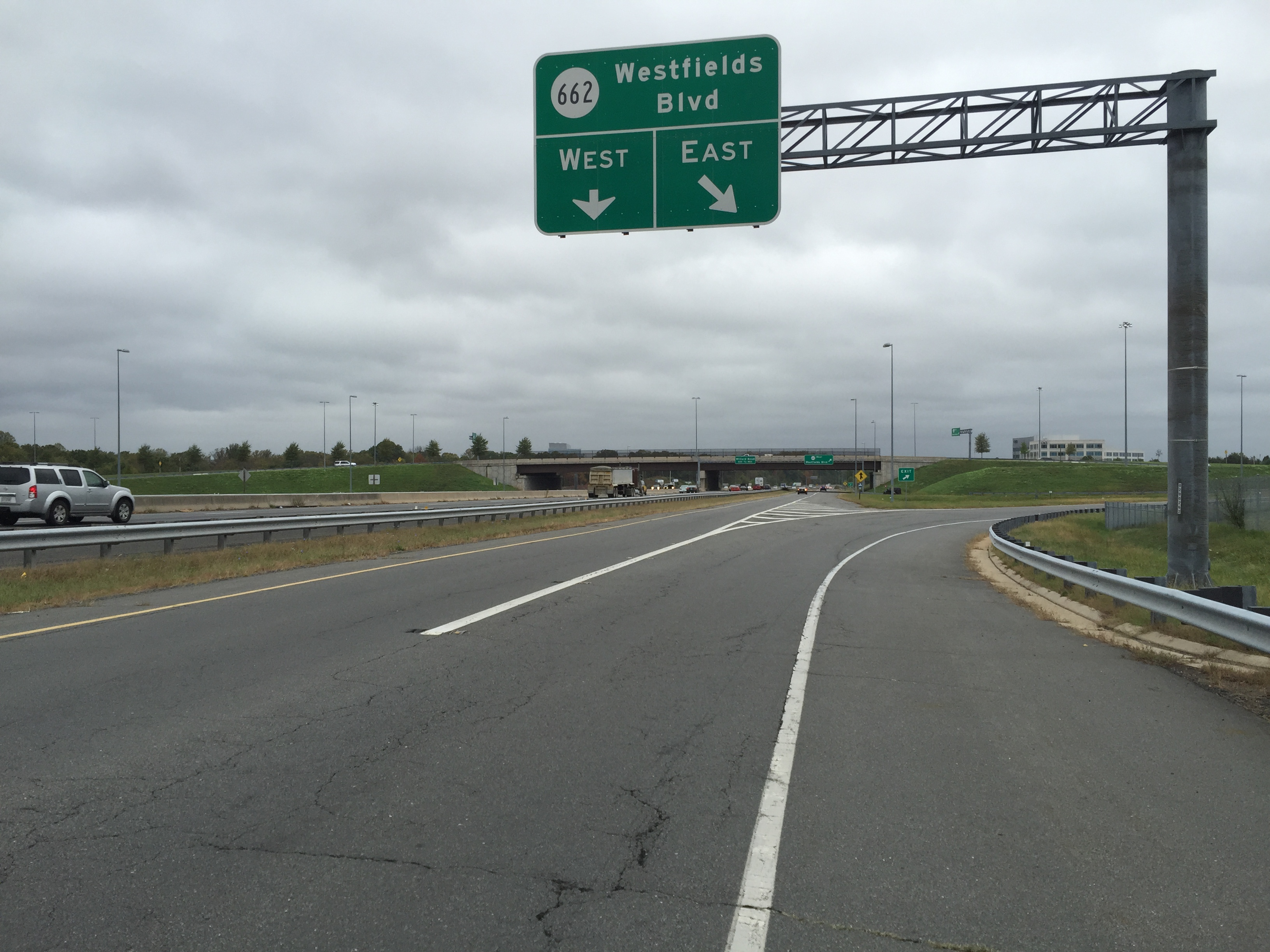 View north along Virginia State Route 28 (Sully Road) at the exit for Virginia State Secondary Route 662 EAST (Westfields Boulevard) in Chantilly, Fairfax County, Virginia